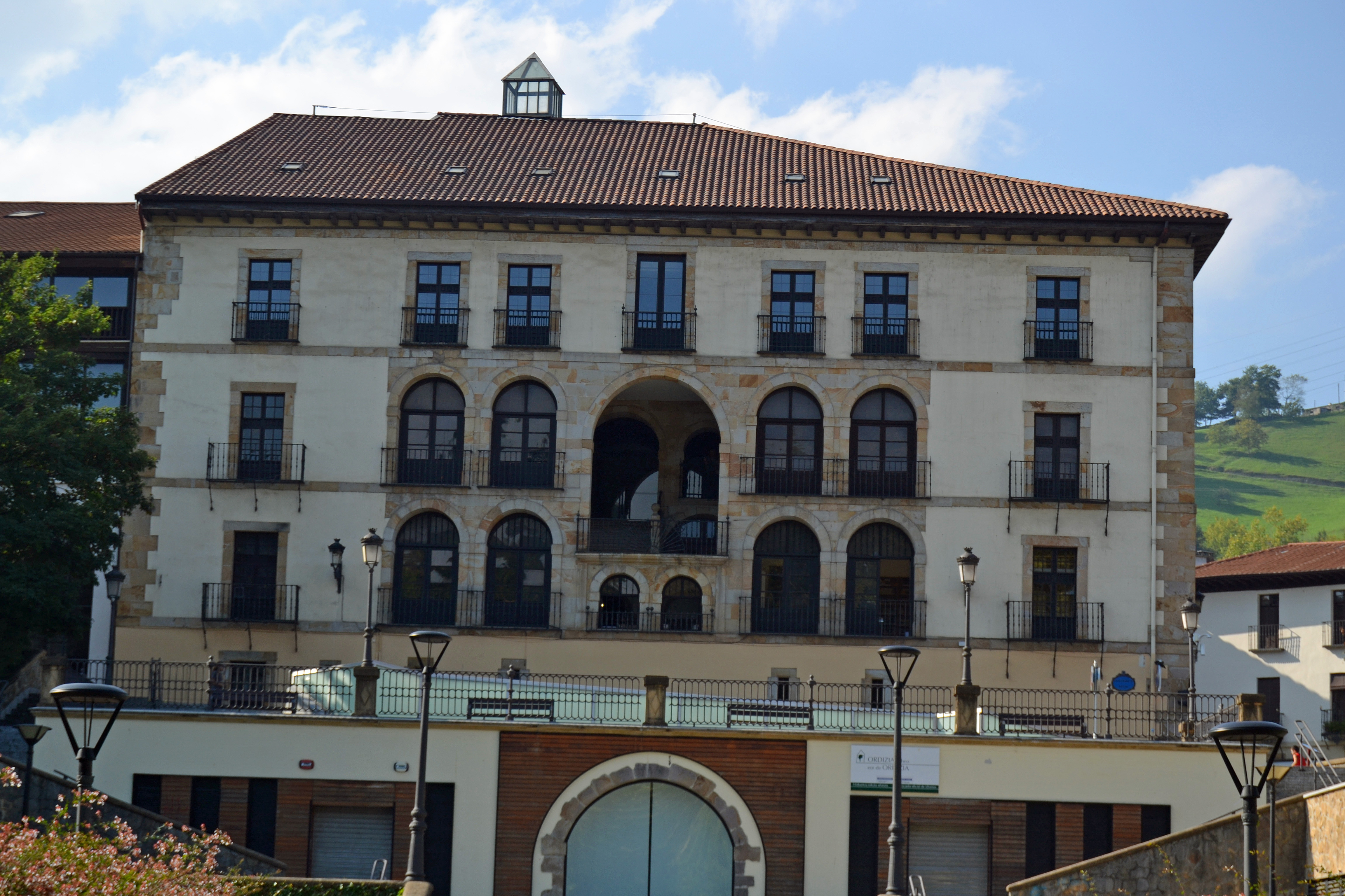 Barrena palace, Ordizia. Gipuzkoa, Euskal Herria.